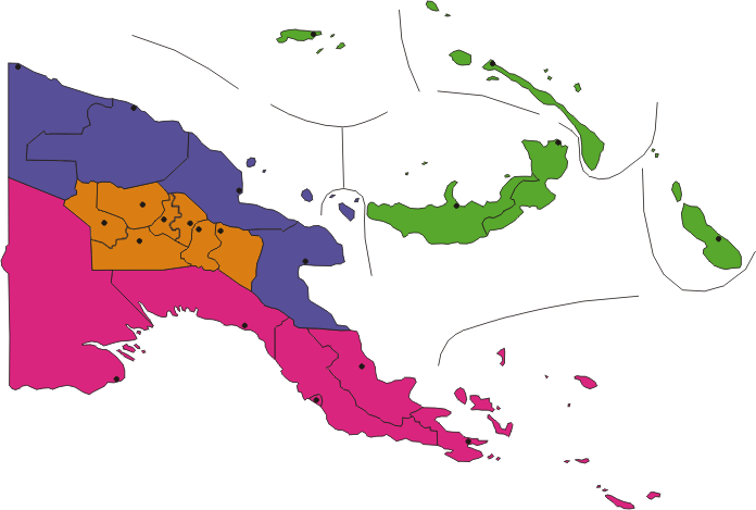 Locator map of regions of Papua New Guinea